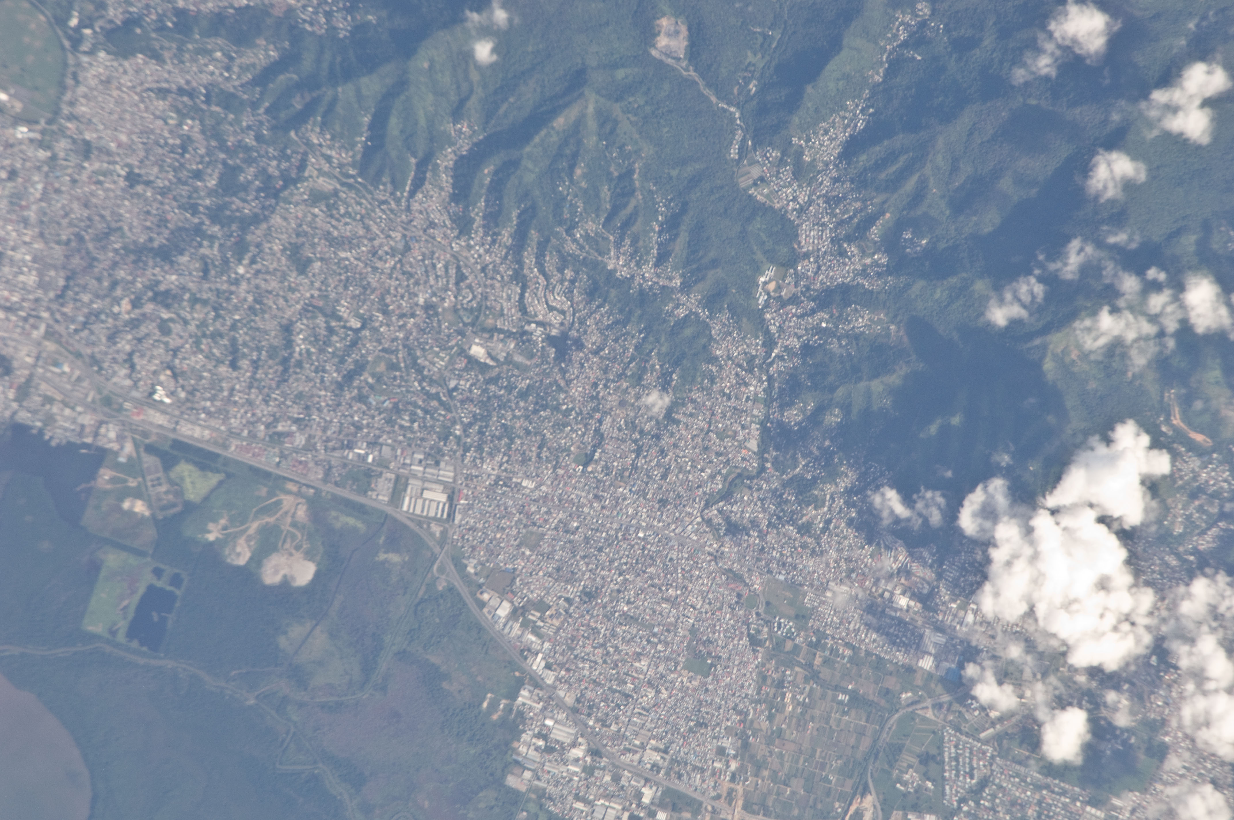 Astronaut Photo of Port-of-Spain, Trinidad and Tobago taken from the International Space Station (ISS) during Expedition 25 on October 15, 2010.